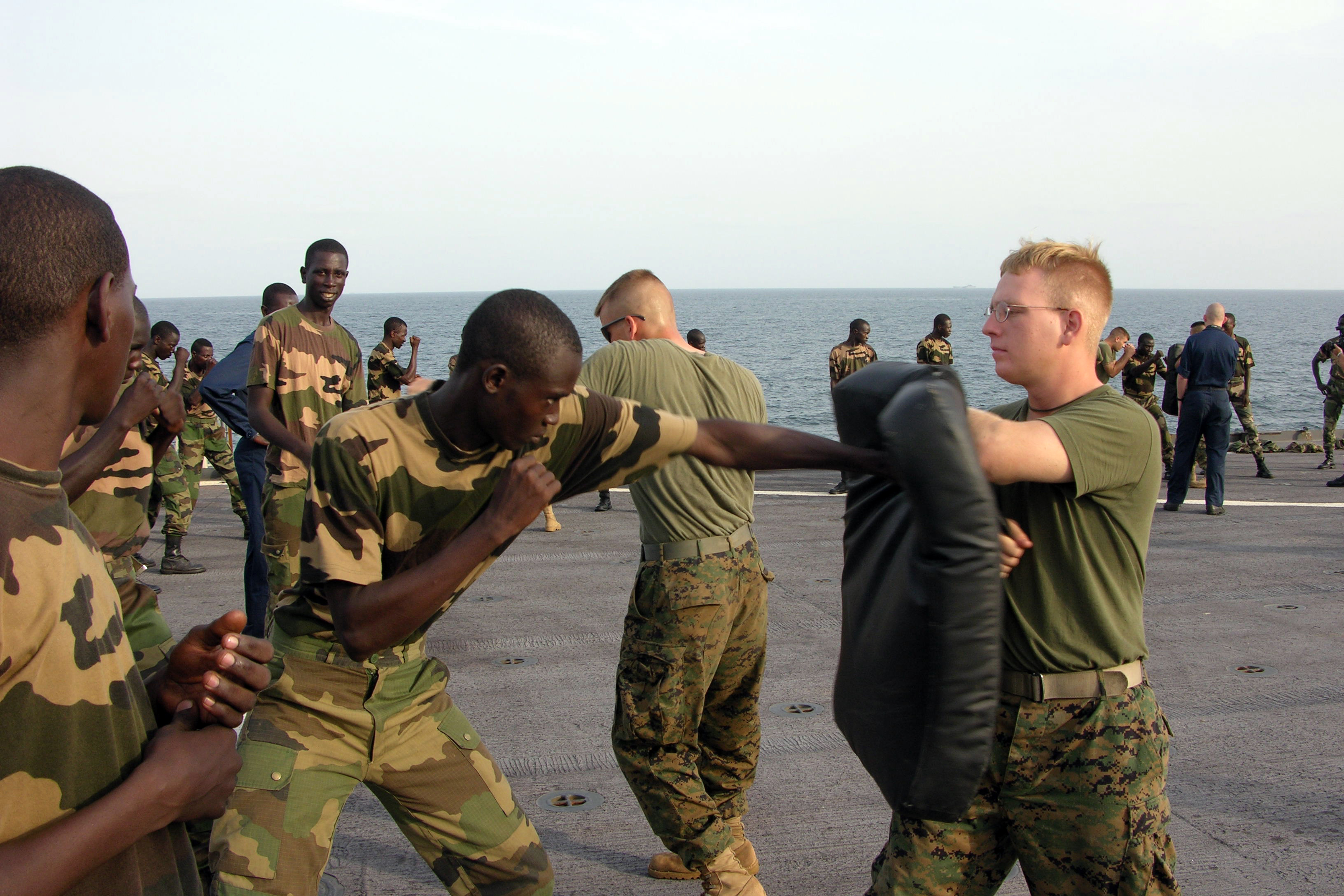 Atlantic Ocean (Nov. 3, 2005) - U.S. Marine Corps Lance Cpl. Ryan Papa, right, assigned to 2nd Platoon, Company C, 1st Battalion, 8th Marine Regiment, holds a striking pad for a member of the Senegalese 90th Naval Infantry during Marine Corps Martial Arts Training on the flight deck of the dock landing ship USS Gunston Hall (LSD 44). Approximately 60 Marines are participating in the Western Africa Training Cruise 06, conducted to enhance security cooperation and foster new partnerships between the United States, participating NATO partners Italy and Spain, and the West African nations of Ghana, Senegal, Guinea and Morocco through real-world training and engagement opportunities. U.S. Marine Corps photo by Gunnery Sgt. Joseph Lomangino (RELEASED)